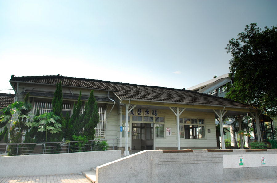 ShueiShang Station is a local train station of Taiwan's Western main rail line. It's the main station of HouBi Township, TaiNan County.